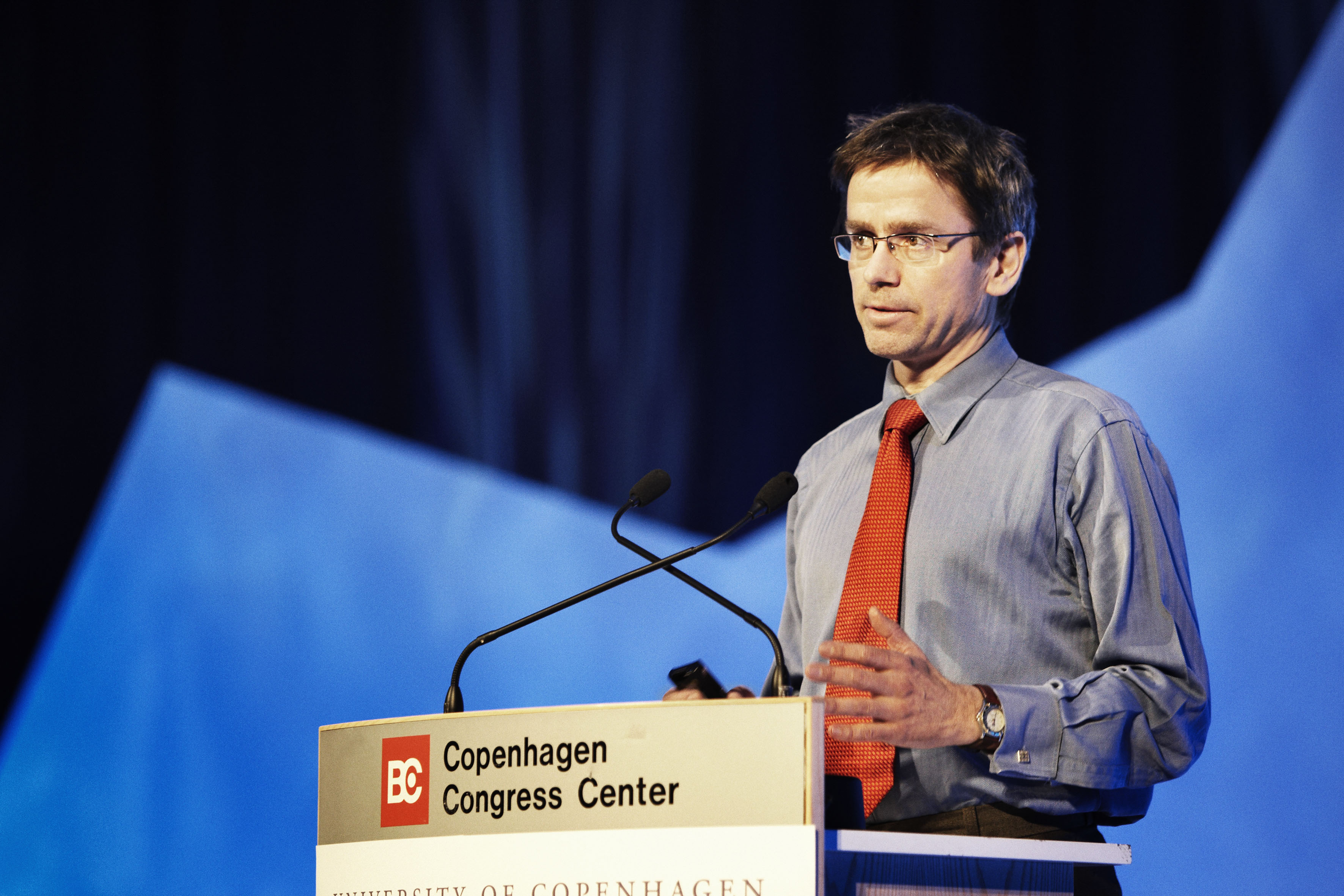 Foto: Lizette Kabré. Climate congress, Copenhagen 2009, 10-12 March. Professor Stefan Rahmstorf, Potsdam Institute for Climate Impact Research.